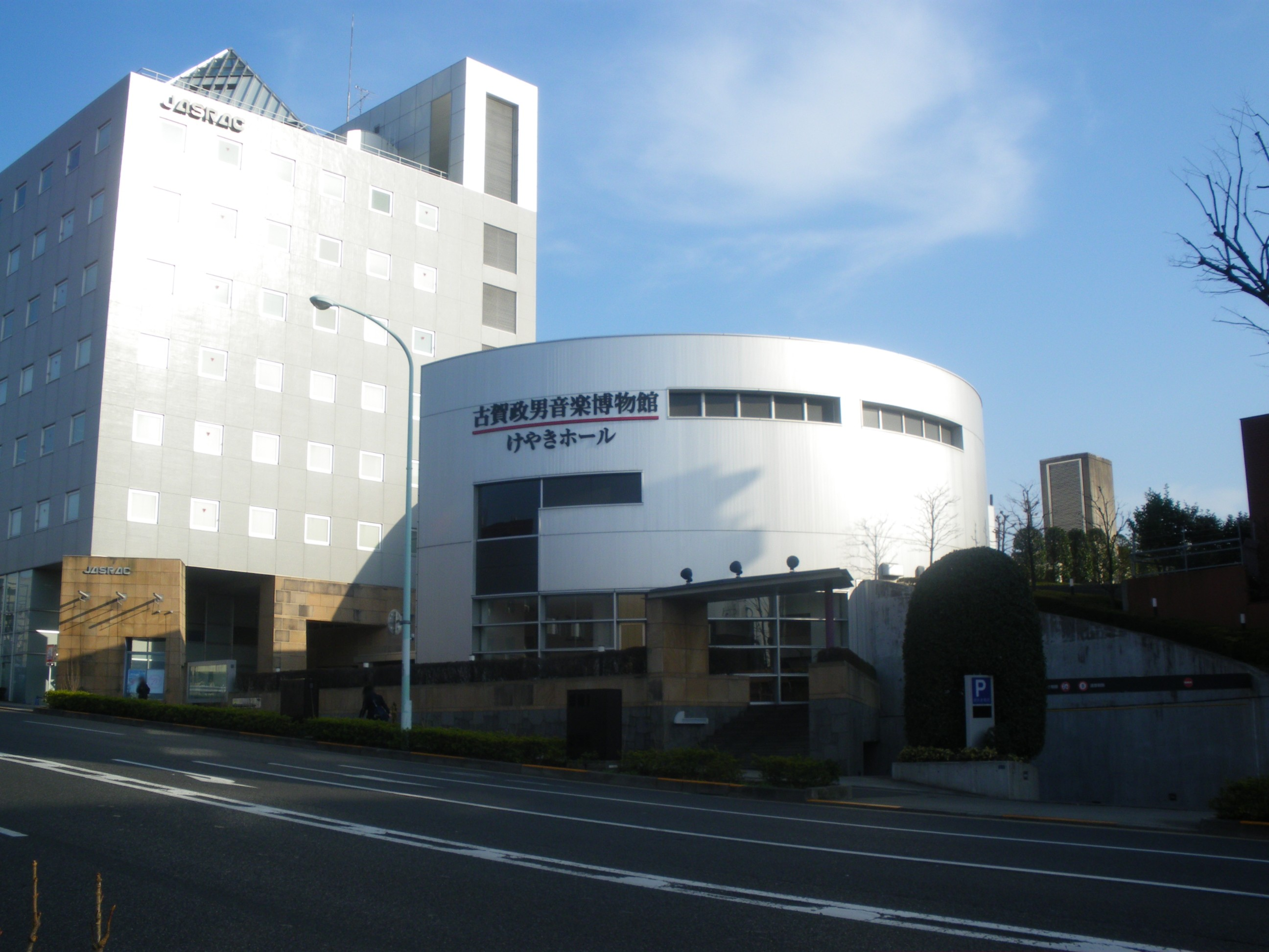 JASRAC(Japanese Society for Rights of Authors, Composers and Publishers)Head office and Koga Masao Music Museum(Uehara,Shibuya,Tokyo)